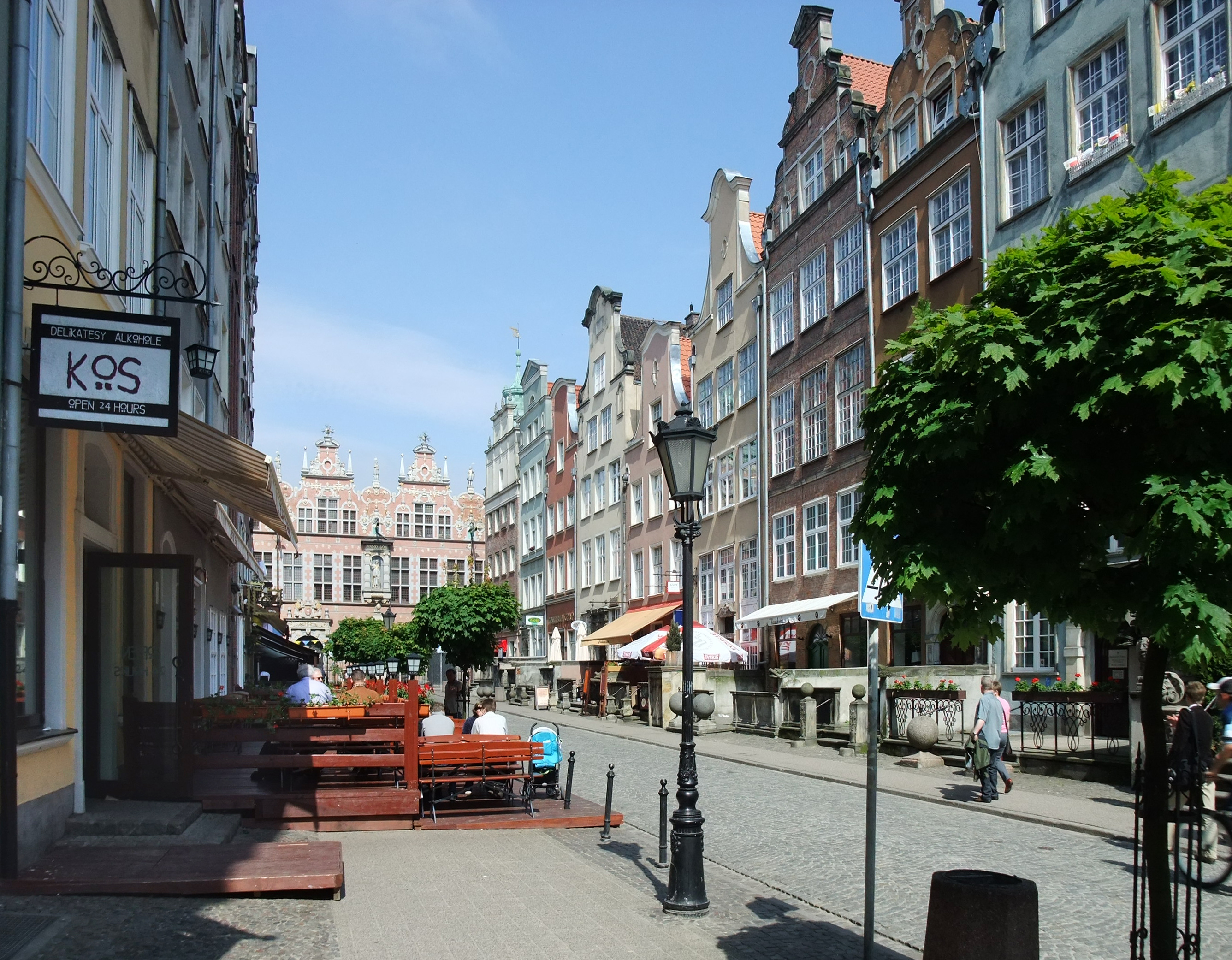 Piwna Street in the Main Town of Gdansk, Poland